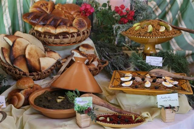 This is an image of food from Tunisia